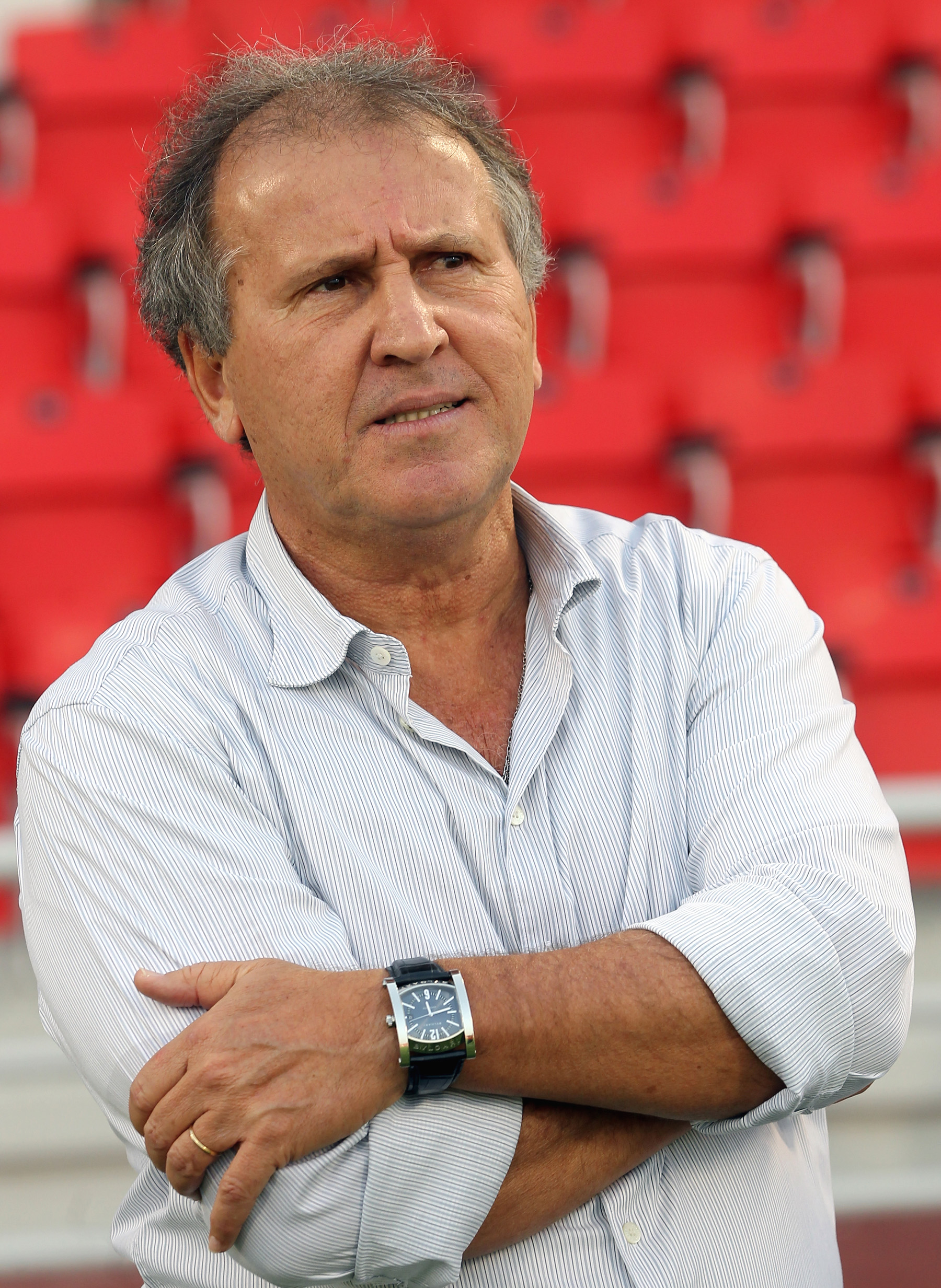 Legendary Brazilian player Zico, who is also Iraq's coach, during his team's 2014 FIFA World Cup qualifier against Oman in Doha. Picture by Mohan